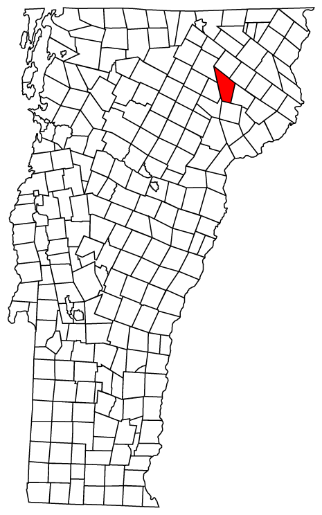 Description: Map of Vermont towns with Sutton highlighted Source: Map created by Jared C. Benedict on 26 March 2004. Copyright: © Jared C. Benedict.